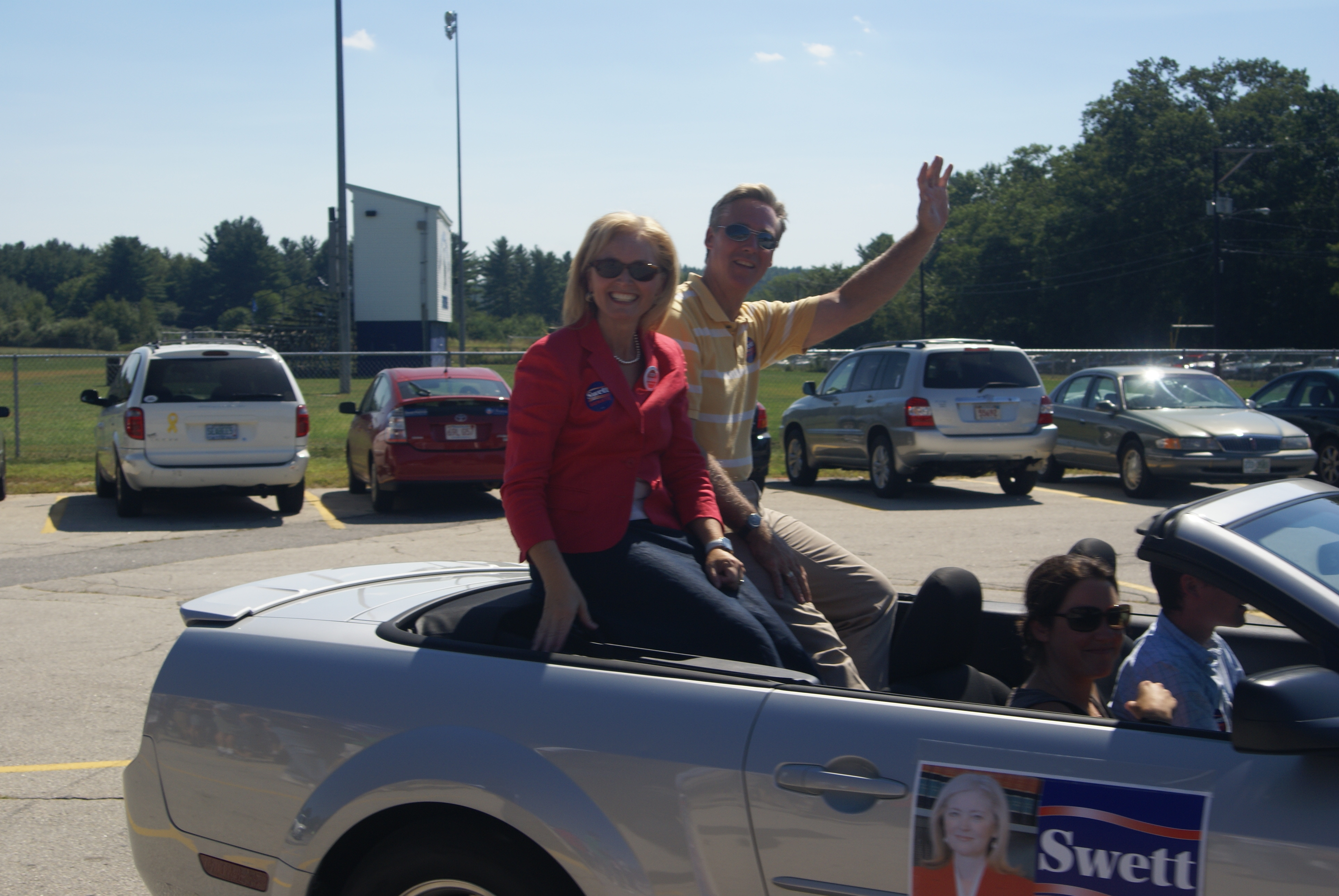 American politicians Katrina Swett & Dick Swett, in the 2008 Labor Day parade in Milford, New Hampshire. Katrina Swett was campaigning for US Senate.